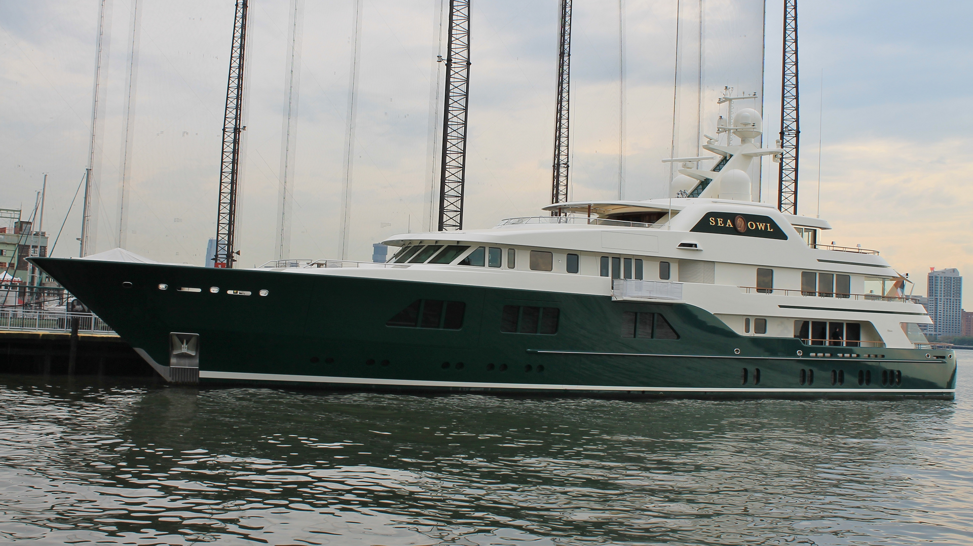 Superyacht Sea Owl docked at Chelsea Piers in Manhattan on 1 September 2016.